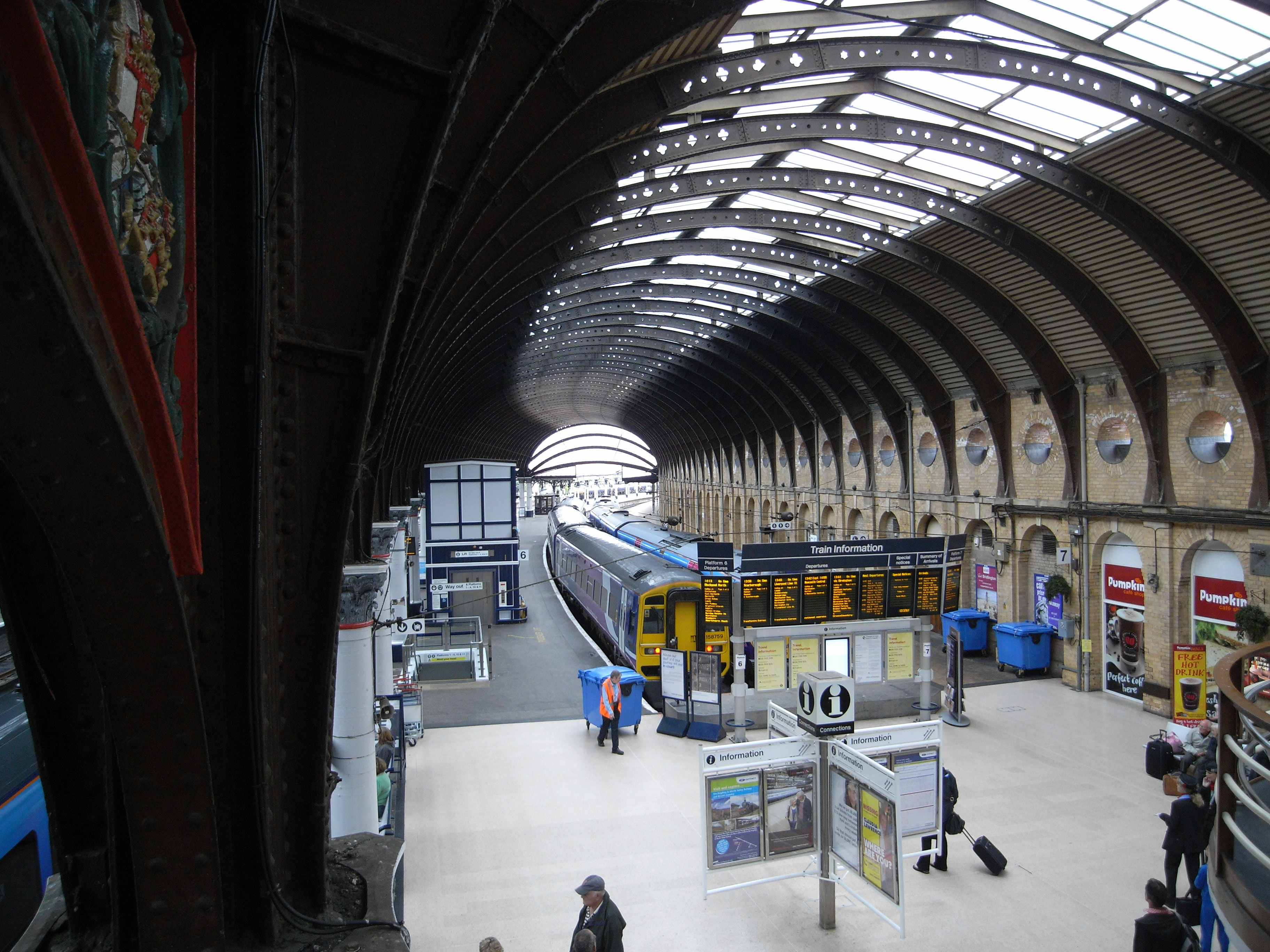 The roof of York station from the footbridge, looking south towards bay platforms 6 and 7.